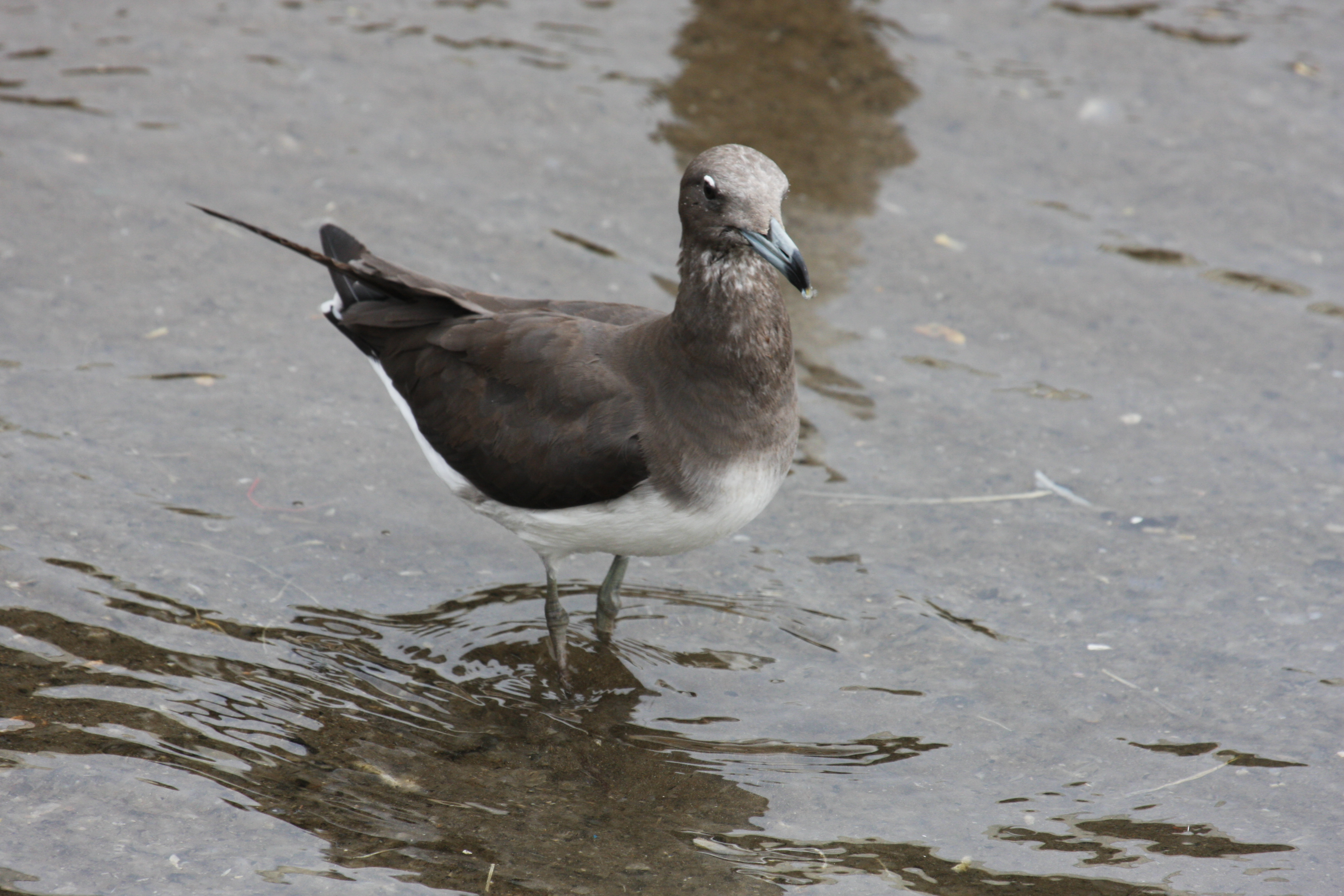 Sooty Gull Ichthyaetus hemprichii, Muscat, Oman